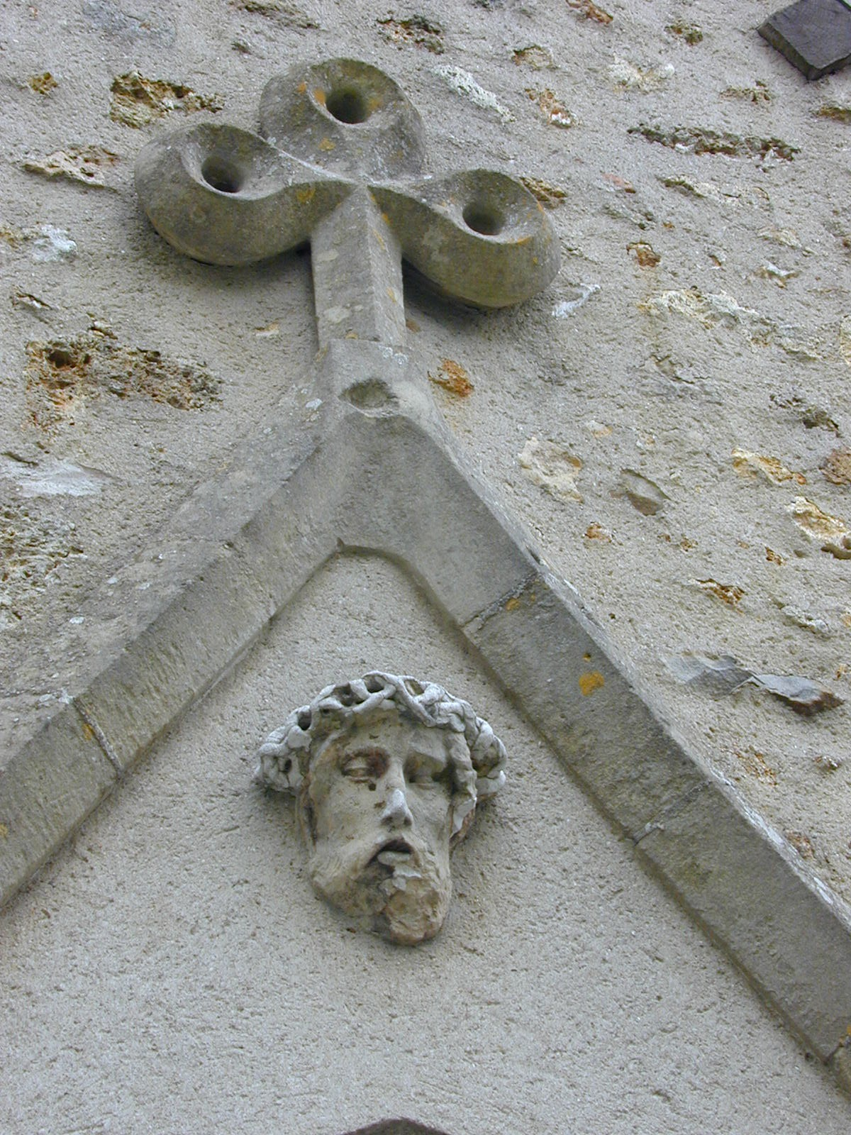 Photo of Aincourt village architectural detail